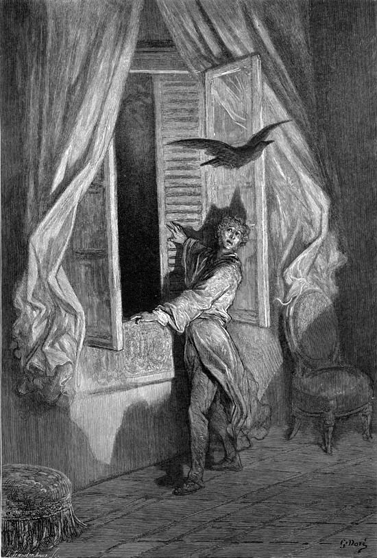 Illustration 14 for "The Raven" by Edgar Allan Poe for the line "Not the least obeisance made he."